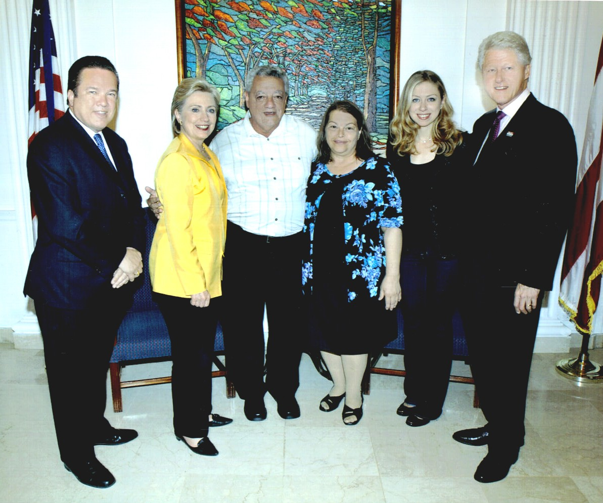 The Santiago's and the Clinton's. Picture taken in the Capitol building by "my" son with "my" camara. Permission sent to OTRS by my son